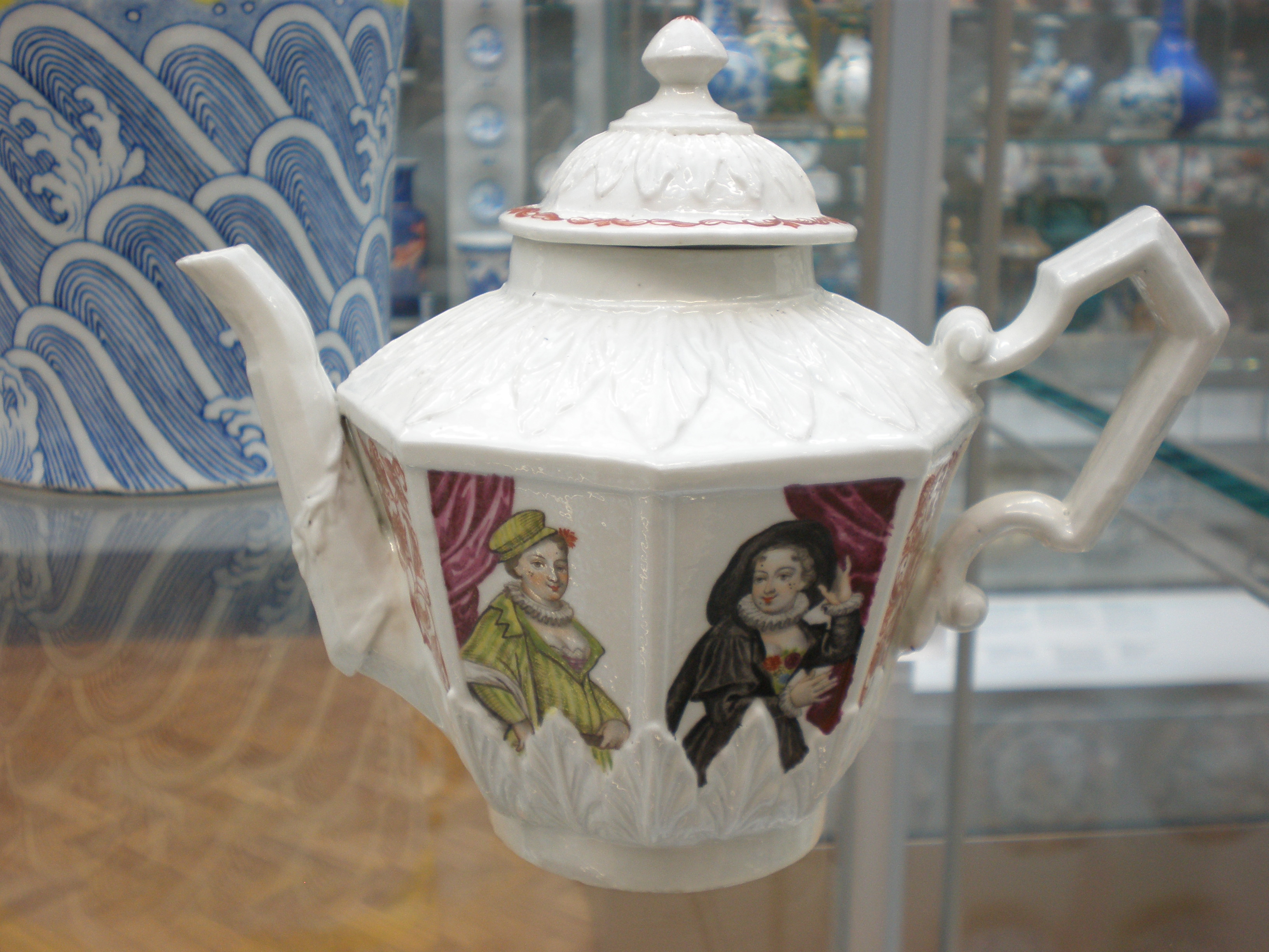 Teapot with Actresses Italy, Venice 1720-7 Teapot and cover of hard-paste porcelain painted with enamels, Vezzi porcelain factory, Venice, ca. 1725. This tiny teapot is painted with female characters from Italian comedy. The Vezzi factory where it was made, played a key role in the history of European porcelain. The Vezzi brothers were involved in a series of incidents of industrial espionage. It was these actions that led to the secret of manufacturing Meissen porcelain becoming widely known Bequeathed by Mr Arthur Hurst Collection ID: C.130&A-1940 This photo was taken as part of Britain Loves Wikipedia in February 2010 by David Jackson.